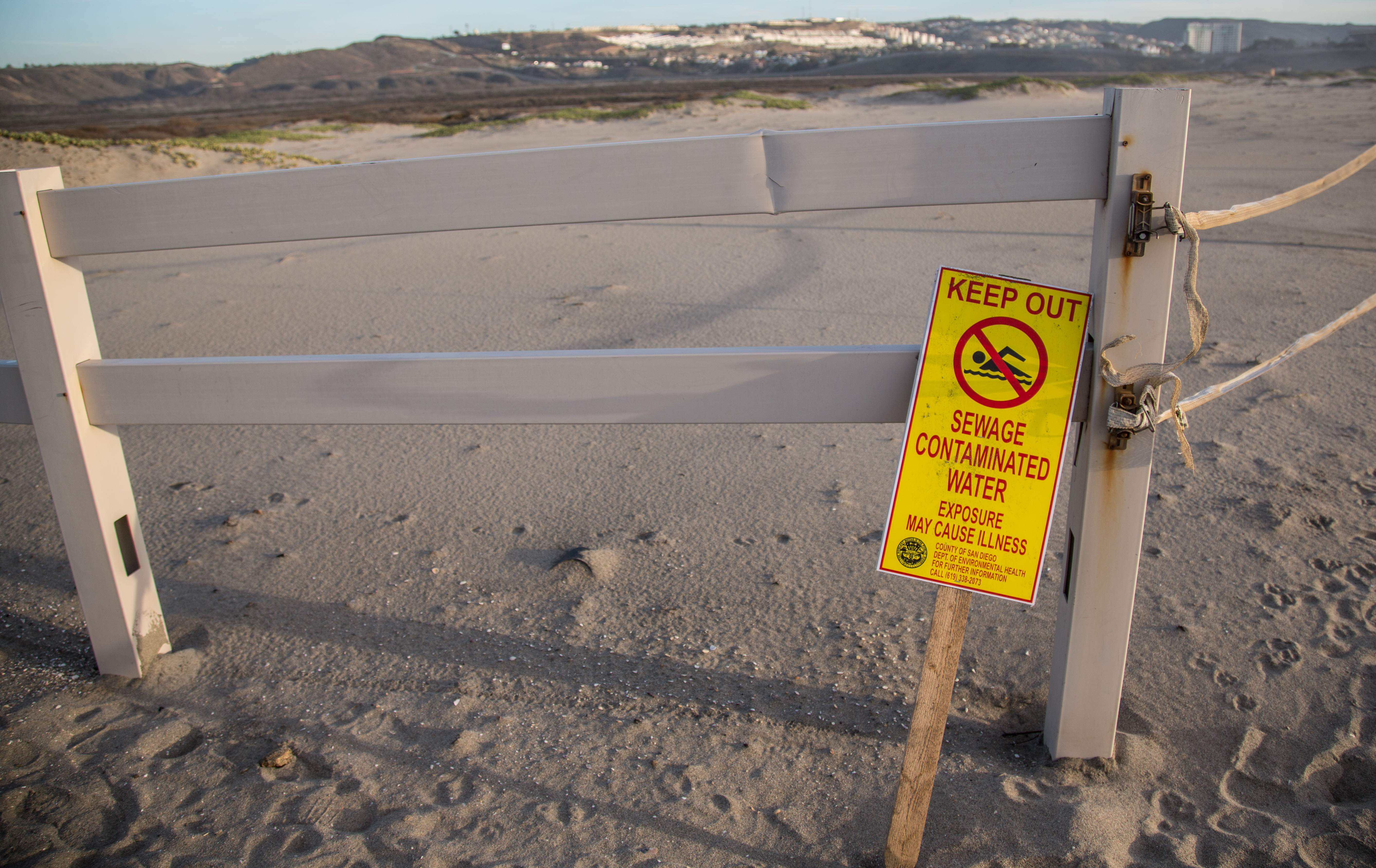 Border Field State Park / Imperial Beach, San Diego, California